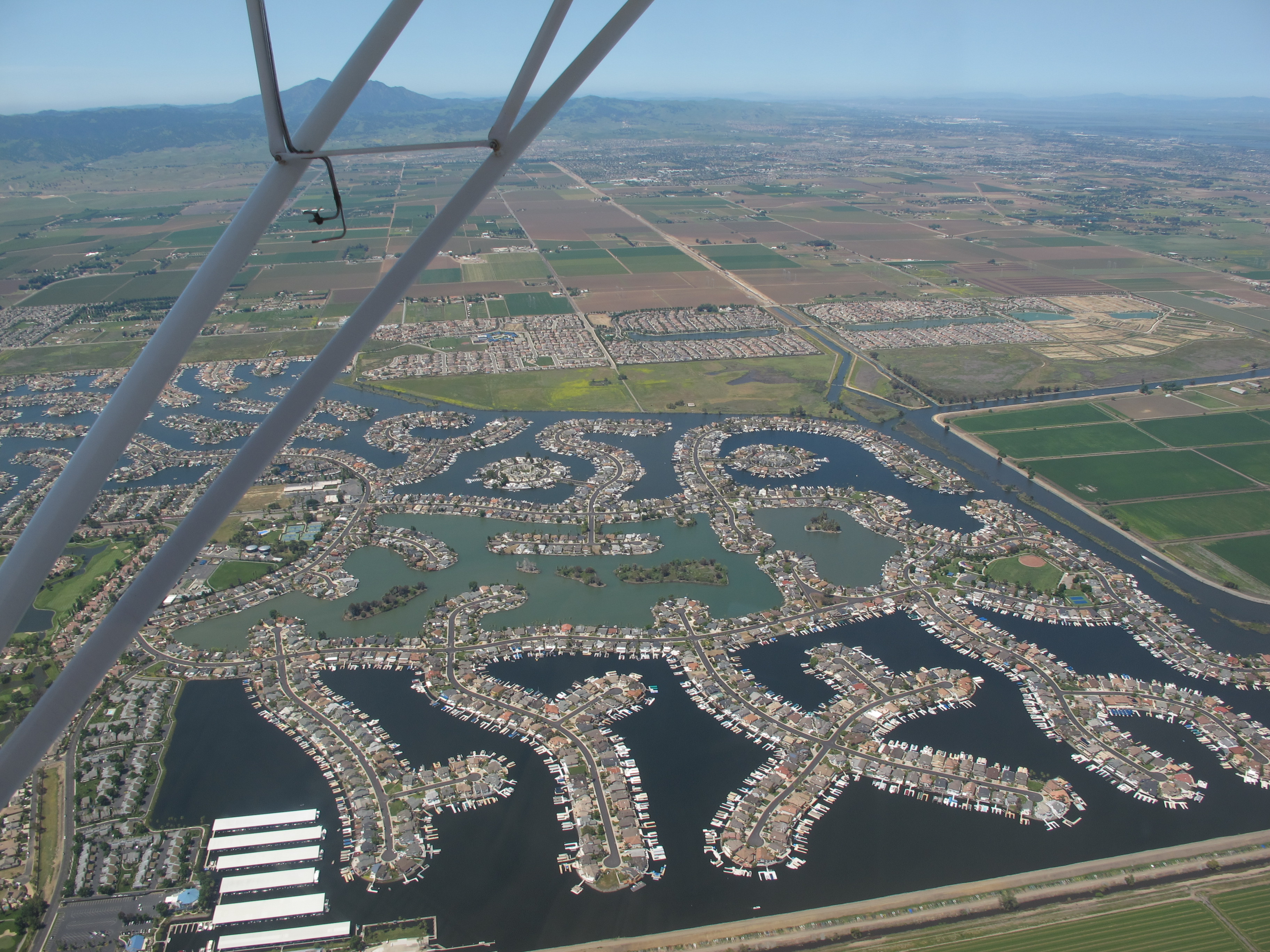 Discovery Bay